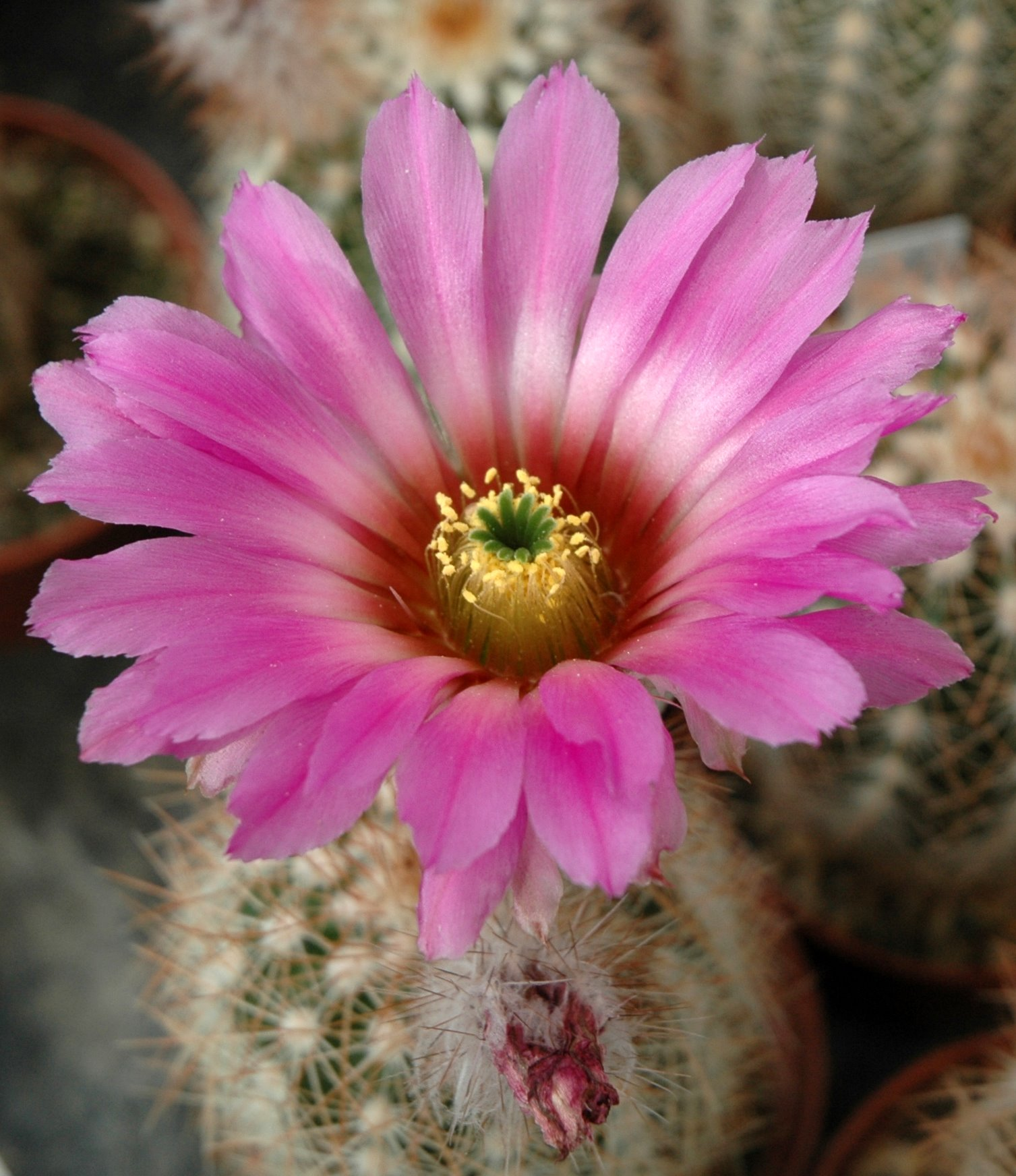 Flower of Echinocereus baileyi